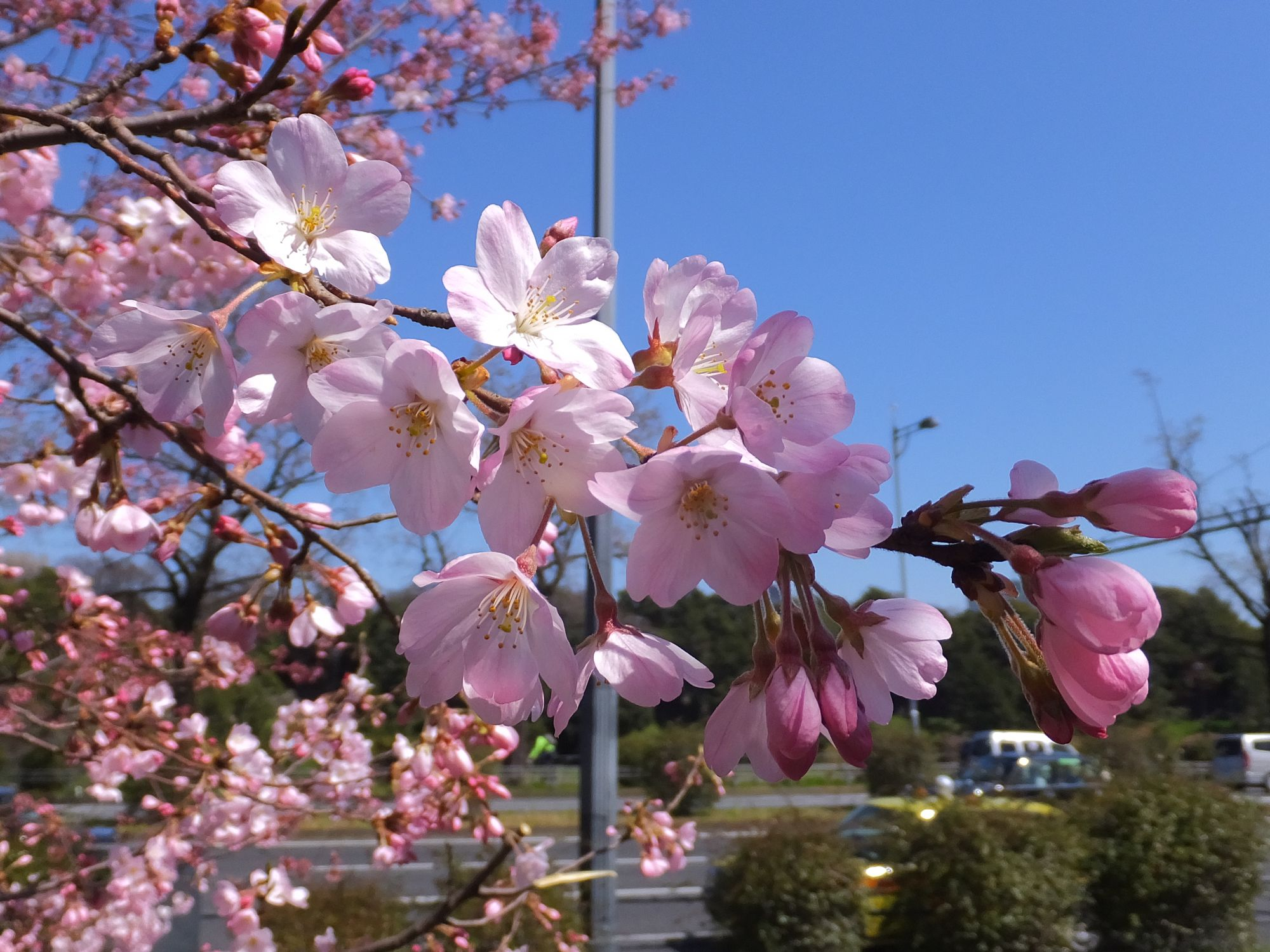 Prunus × yedoensis 'Jindai-akebono'